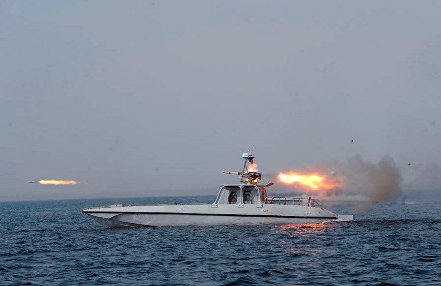 An unknown IRIN small missile boat in Velayat-90 Naval Exercise.